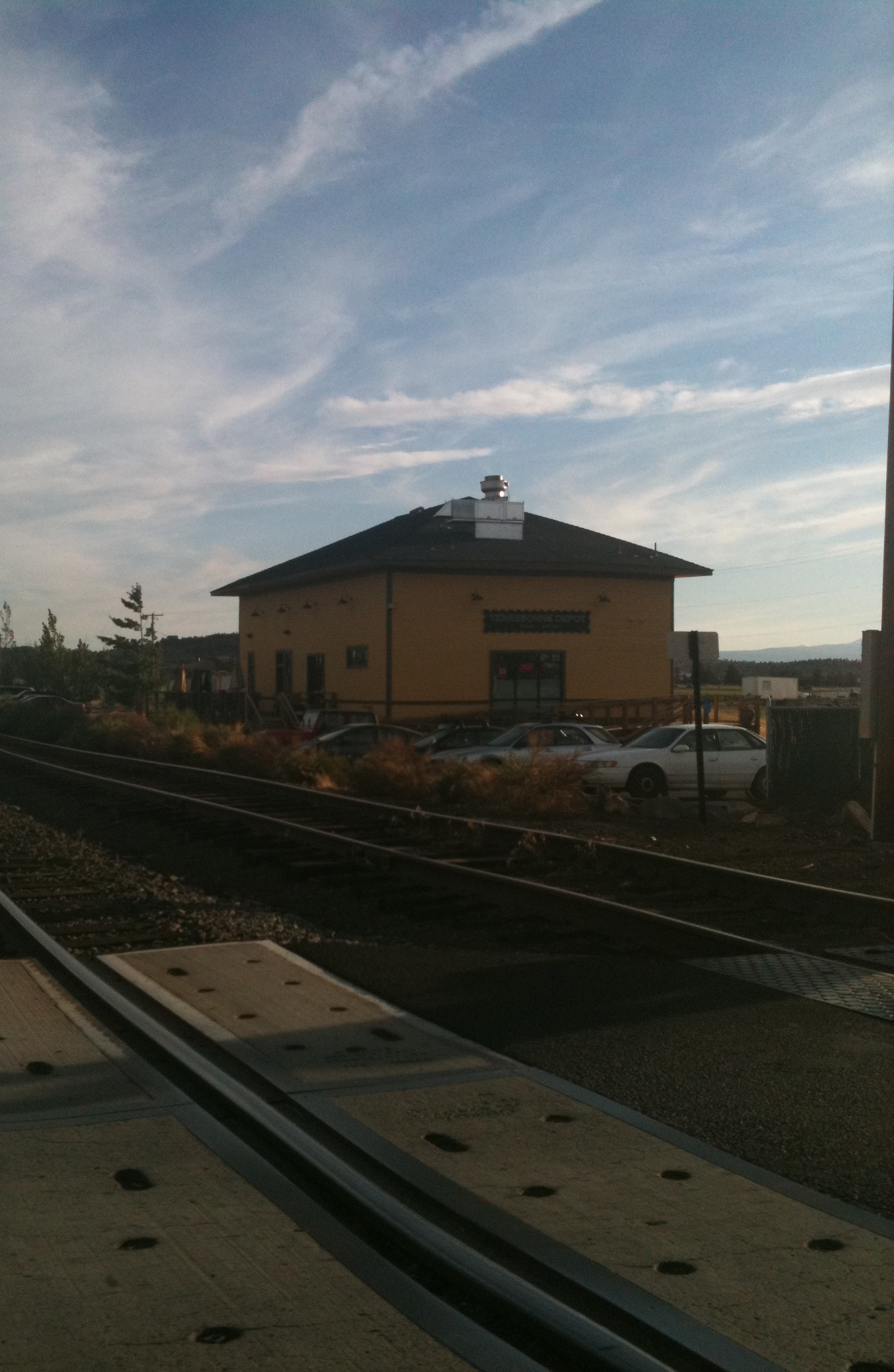 The restaurant at Terrebonne, a census-designated place in Deschutes County, Oregon, United States